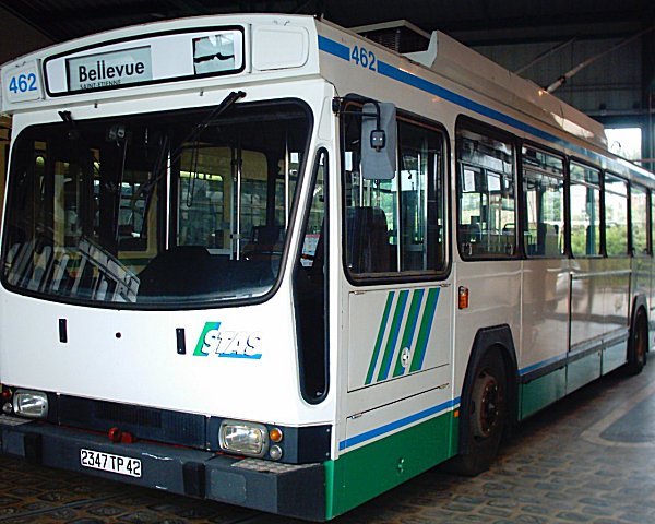 STAS articulated Renault trolleybus at Saint-Priest-en-Jarez.